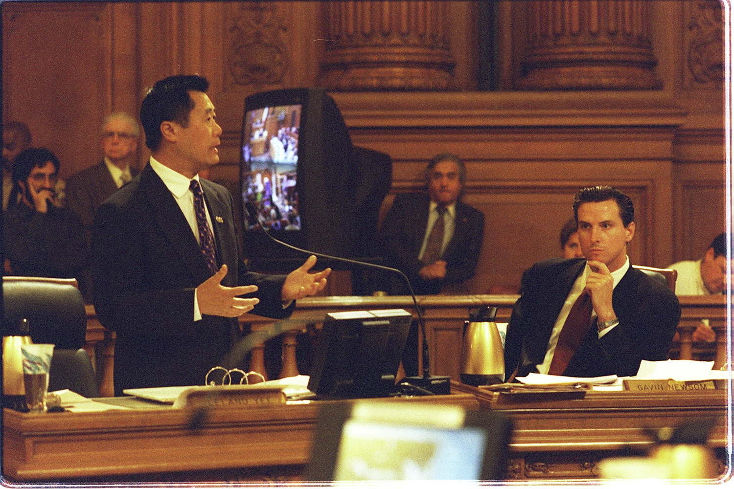 YEE4/C/19JUL99//NANCY WONG SAN FRANCISCO SUPERVISOR LELAND YEE, CHAIRMAN OF THE FINANCE AND LABOR COMMITTEE, SPEAKS AT THE WEEKLY MEETING OF THE BOARD OF SUPERVISORS JULY 19, 1999 IN THE LEGISLATIVE CHAMBER OF SF CITY HALL